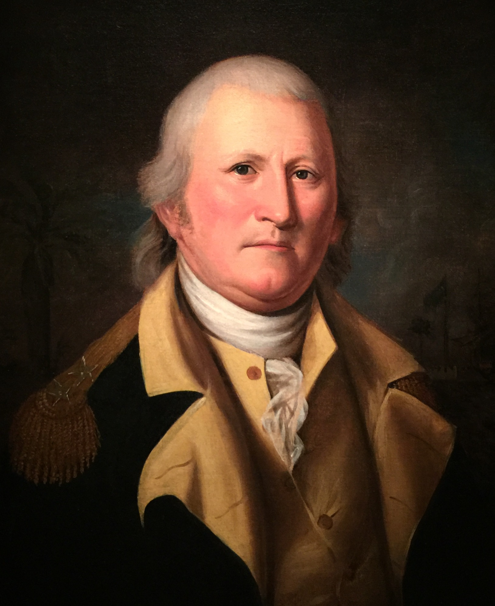 William Moultrie Artist Charles Willson Peale, 15 Apr 1741 - 22 Feb 1827 Sitter William Moultrie, 1730 - 27 Sep 1805 Date 1782 Type Painting Medium Oil on canvas Dimensions Stretcher: 67.6 x 57.2 x 2.5cm (26 5/8 x 22 1/2 x 1") Frame: 75.6 x 65.4 x 6.4cm (29 3/4 x 25 3/4 x 2 1/2") Credit Line National Portrait Gallery, Smithsonian Institution; transfer from the National Gallery of Art; gift of the A.W. Mellon Educational and Charitable Trust, 1942 Object number NPG.65.57 Exhibition Label In June 1776, as eight British warships stood poised to put a quick end to the rebellion in the South, William Moultrie, a planter with some experience as a militia captain, was in charge of the hastily built fort on Sullivan's Island in Charles Town harbor. The soft palmetto logs of the fort successfully absorbed bombardment from one hundred guns, whereas Moultrie's men discharged their twenty-five guns with a deliberation that demolished ship rigging and slaughtered enemy sailors. After eleven and a half hours, the British slipped away, giving South Carolina a three-year respite from war. In the background of this portrait-showing Moultrie, risen to a general in the Continental army-can be glimpsed the famous fort, renamed in Moultrie's honor. Data Source National Portrait Gallery See more items in National Portrait Gallery Collection Exhibition American Origins On View NPG, East Gallery 144